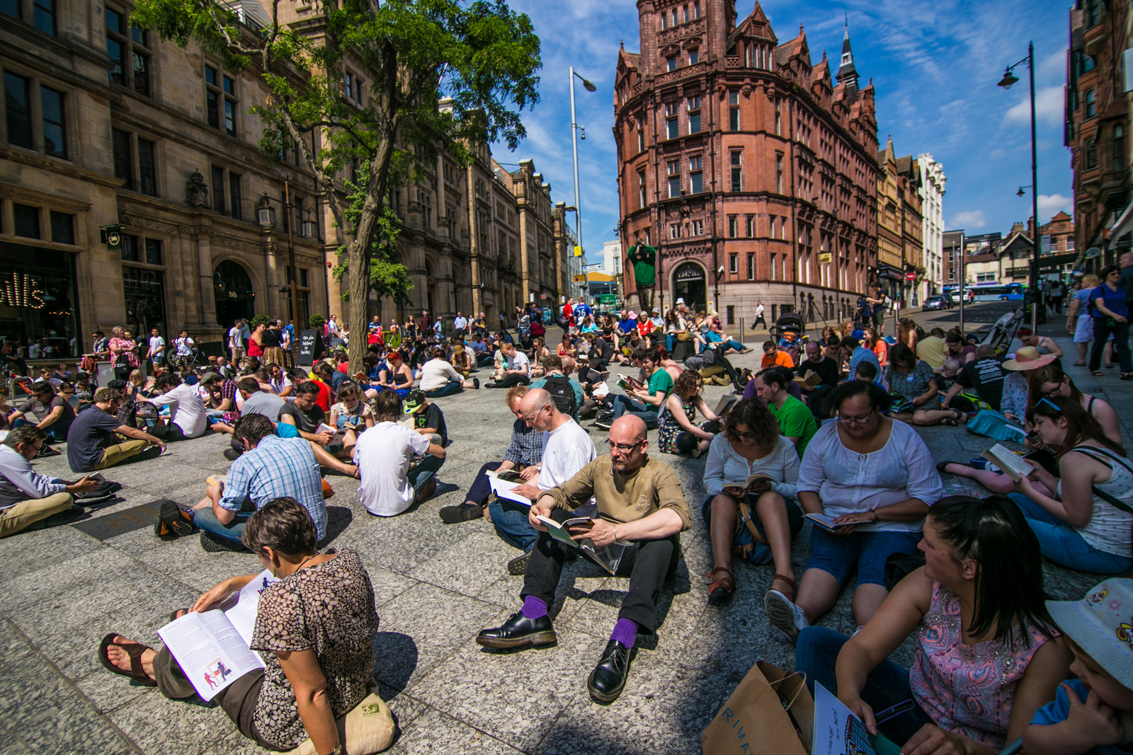 Dawn of the Unread Flashmob in Nottingham.